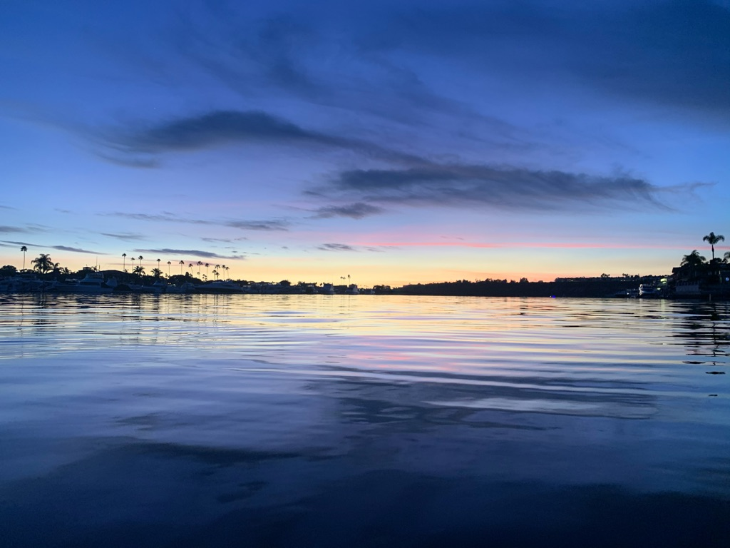 A view of the Newport Back Bay from a kayak in the main channel facing west, at sunset.